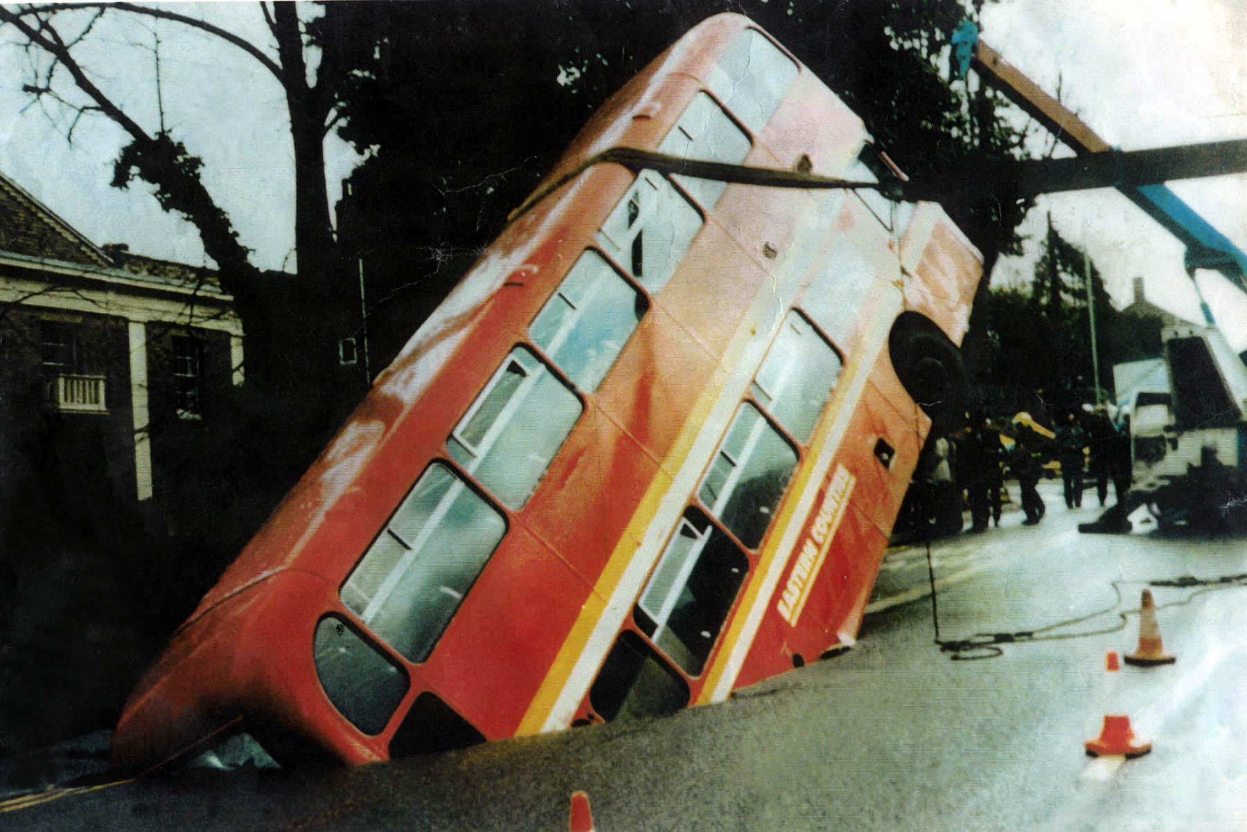 On Thursday 3 March, 1988 a number 26 bus fell into a hole in Earlham Road, Norwich, UK. An old chalk mine, dating fom the 11th century had just given way. Photo scanned from old photocopy